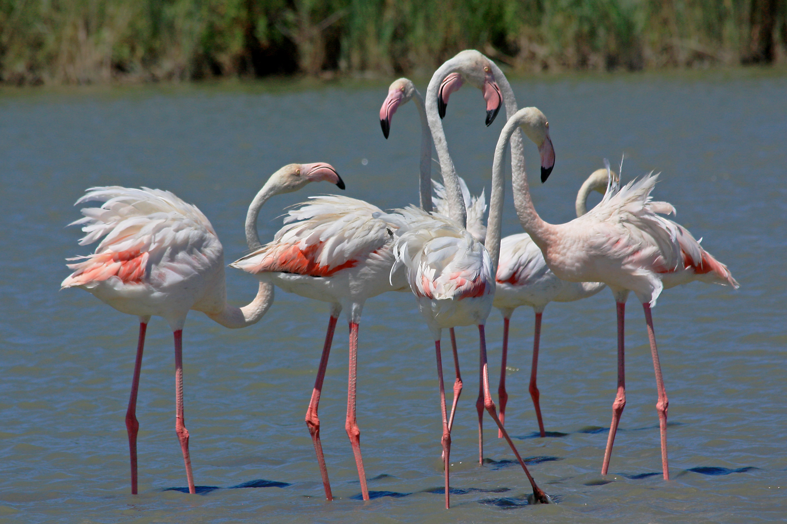 Greater Flamingo Phoenicopterus roseus in the Camargue, France